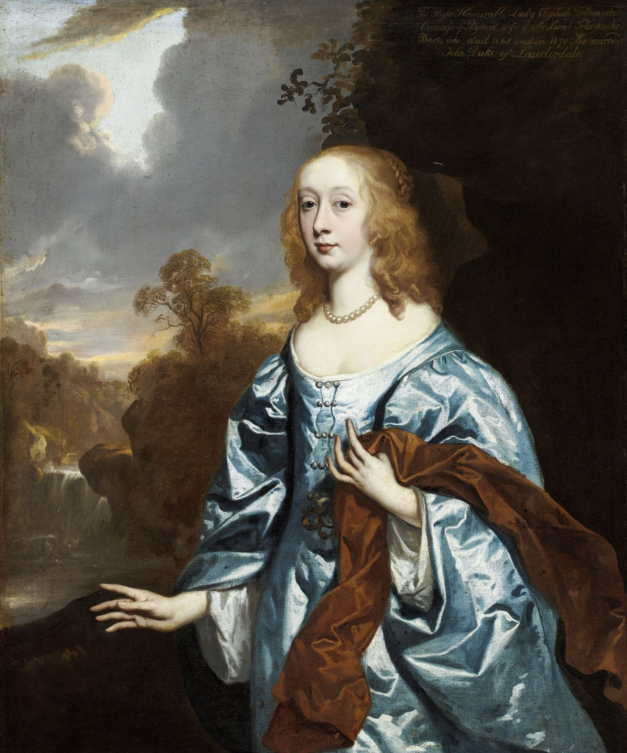 Portrait of Elizabeth Murray (1626–1698), later successively Lady Tollemache, Countess of Dysart and Duchess of Lauderdale (1626 – 1698) by Sir Peter Lely (1618 – 1680).